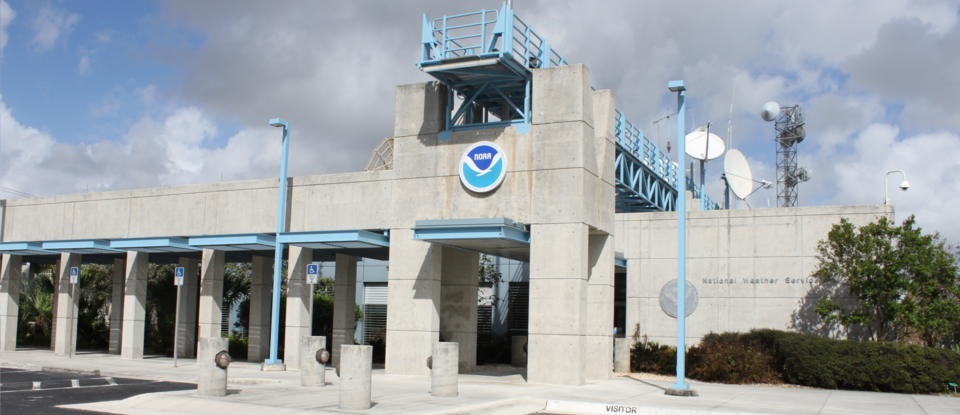 The National Hurricane Center is co-located with the National Weather Service Miami-South Florida Weather Forecast Office on the campus of Florida International University in Miami, Florida.